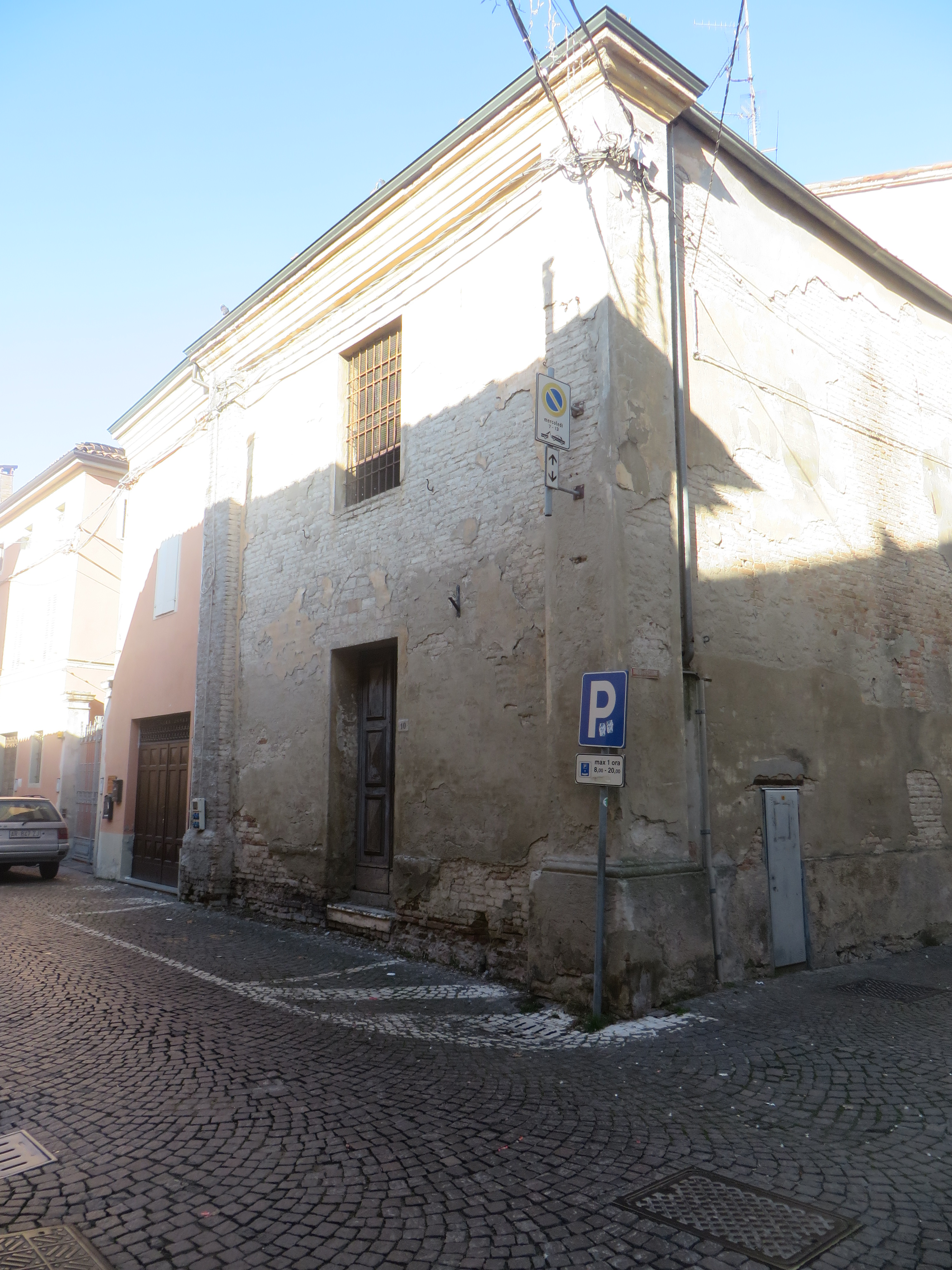 SS Sacramento Church